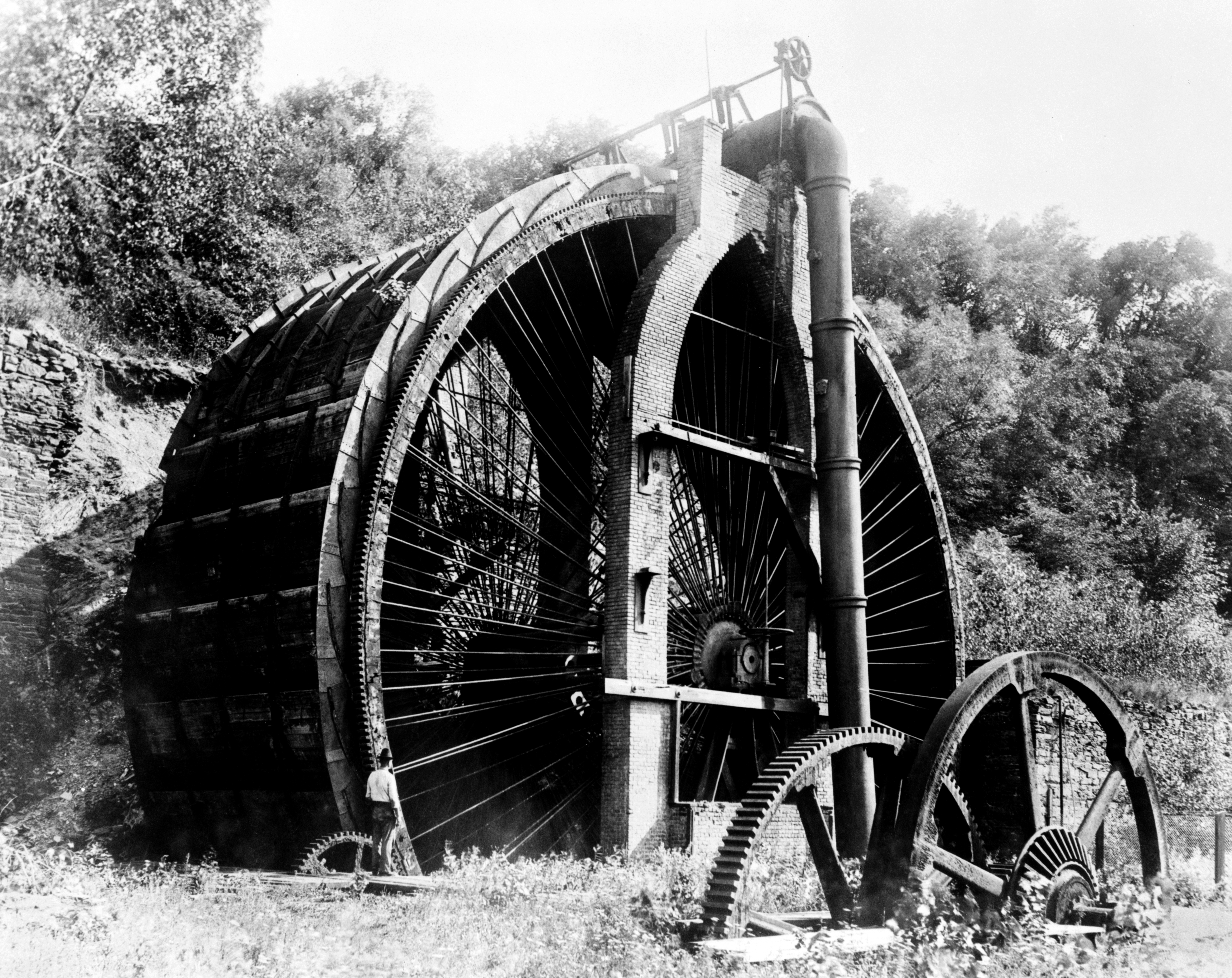 The Burden Water Wheel, part of the Burden Iron Works in Troy, New York, United States